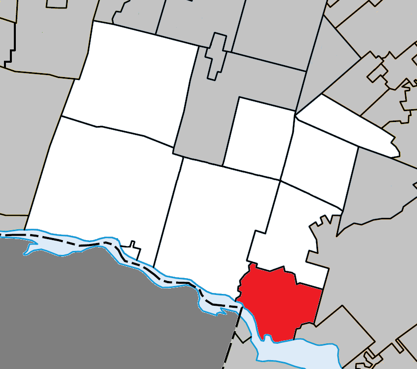 Location of Saint-André-d'Argenteuil, Quebec within Argenteuil Regional County Municipality.